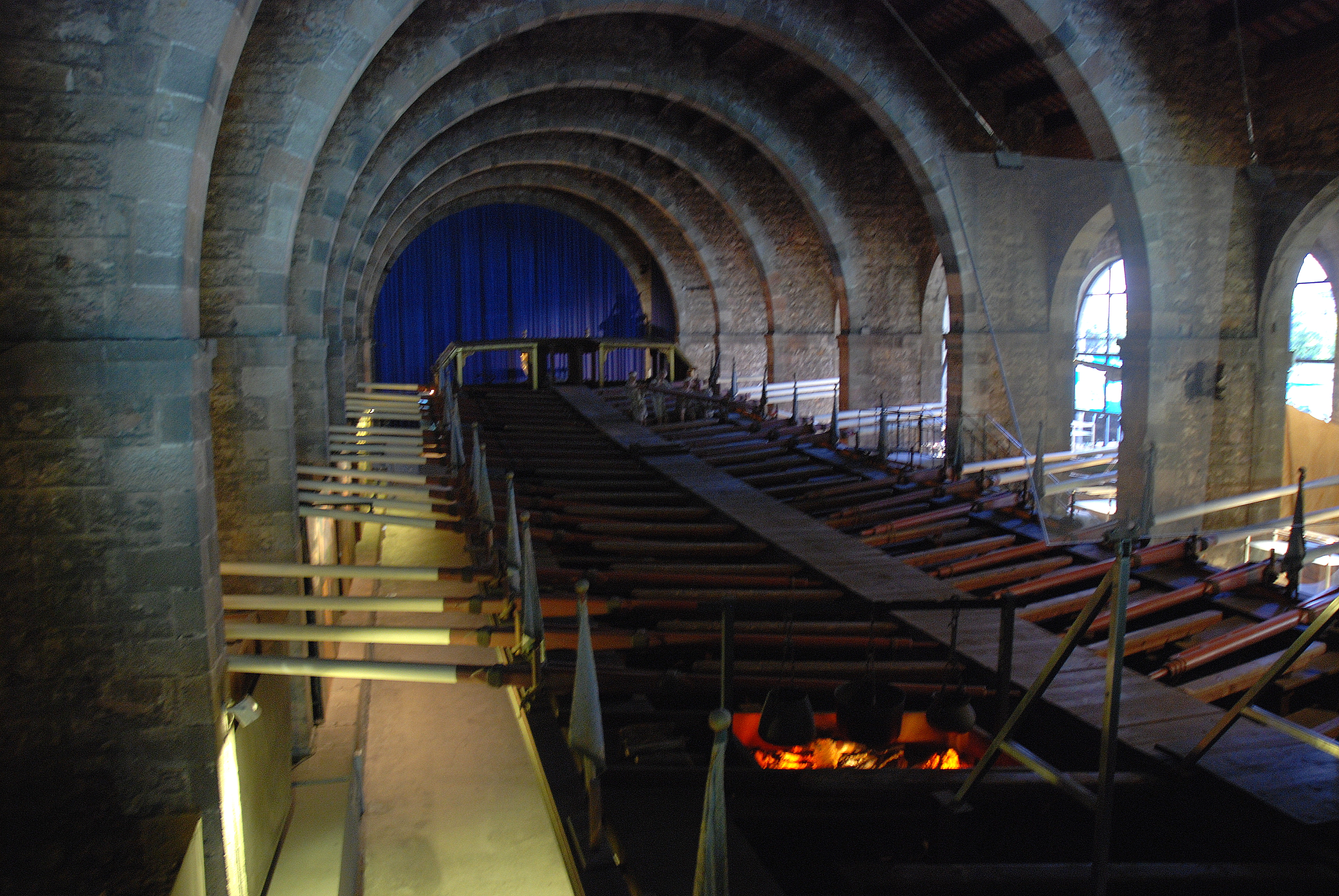 The galley Real at the Museu Marítim de Barcelona